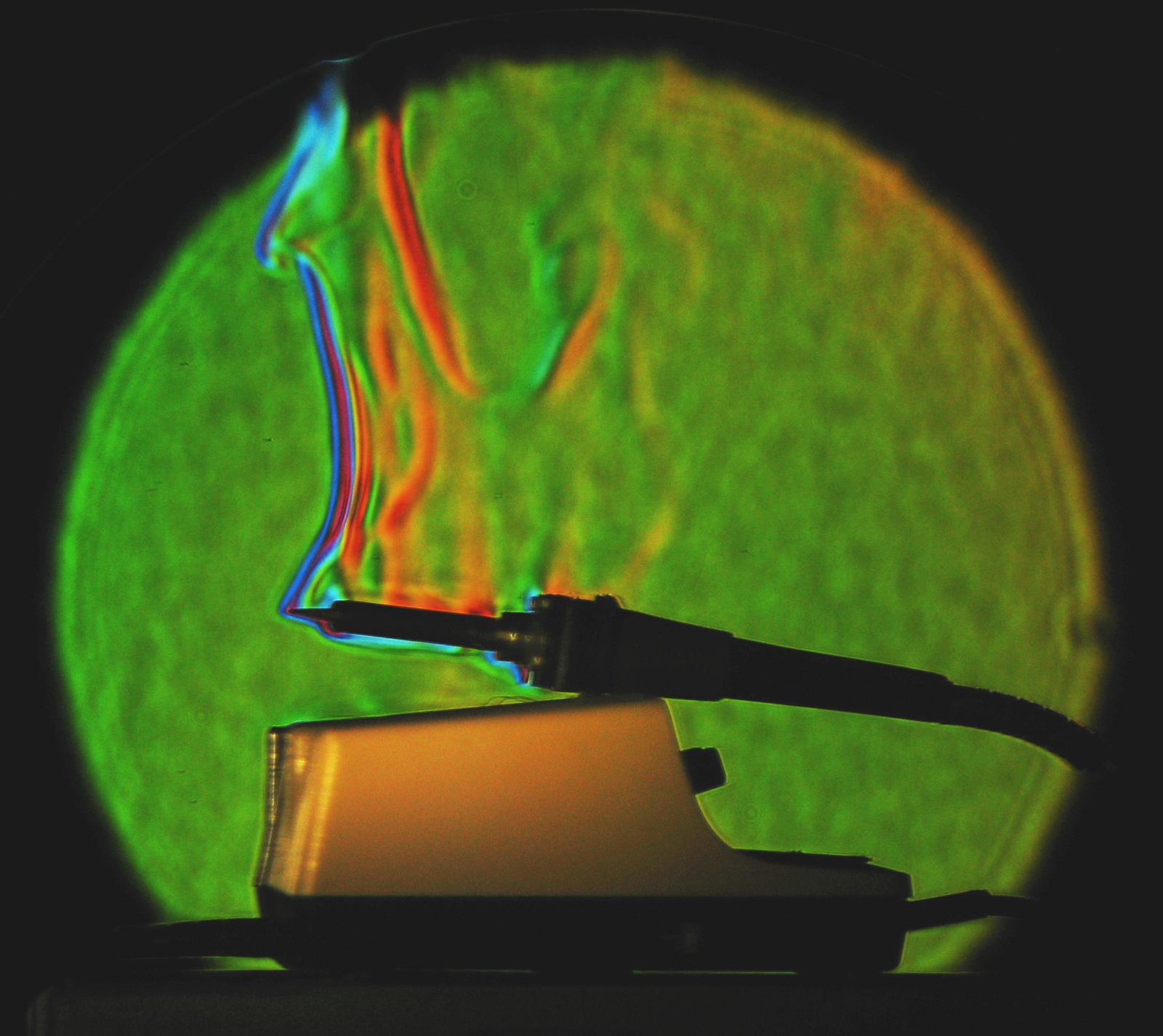 Hot air rising from the top of a soldering iron is made visible by color Schlieren Photography.